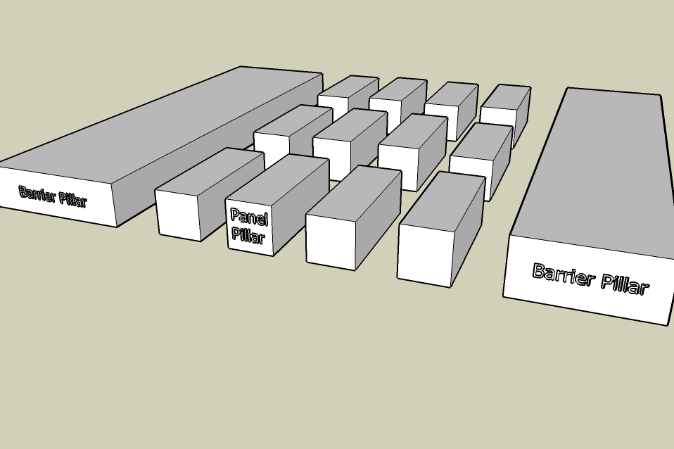 Diagram showing a room and pillar mine